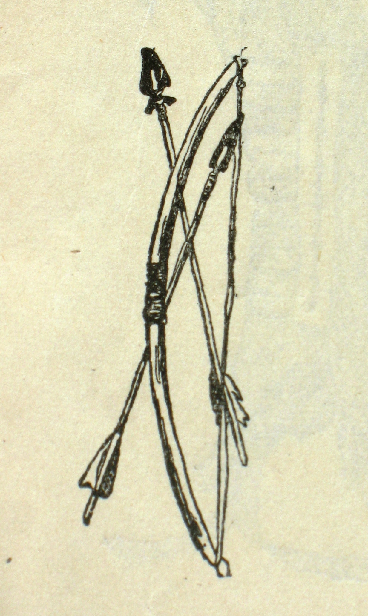 Henry Wadsworth Longfellow, The Song of Hiawatha, Moscow, 1931. Published by OGIZ.